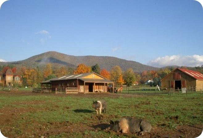 2 pigs in the pig field at Woodstock Farm Animal Sanctuary. Barns and Catskills mountains in the background